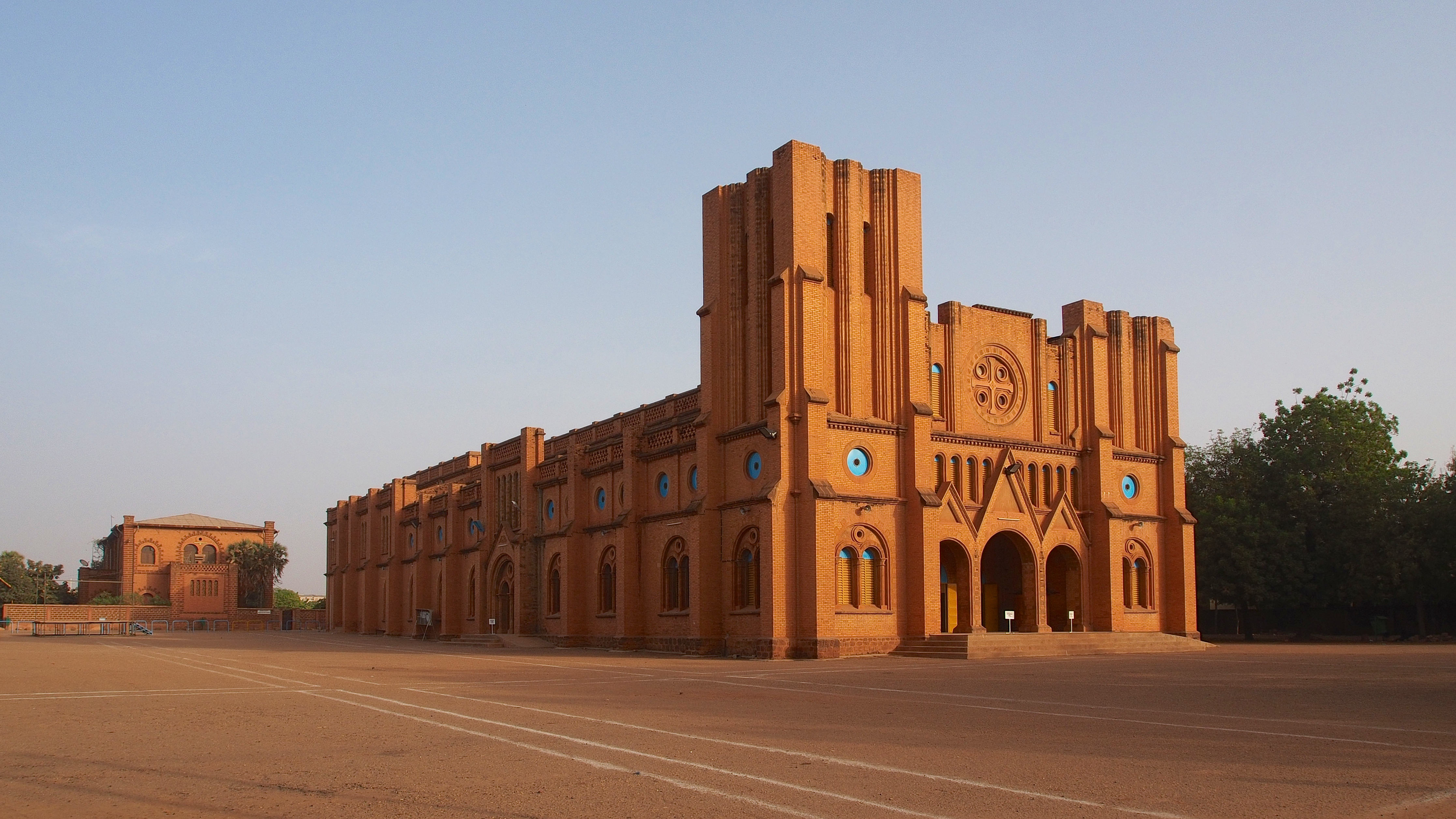 Cathedral of Our Lady of Immaculate Conception, Ouagadougou, Burkina Faso